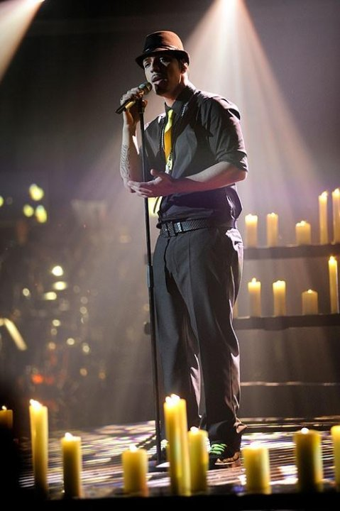 Beschreibung:Mehrzad Marashi performt bei DSDS Quelle:selbst erstellt Datum:Juni,12,2010 Autor:Sanin Huskic